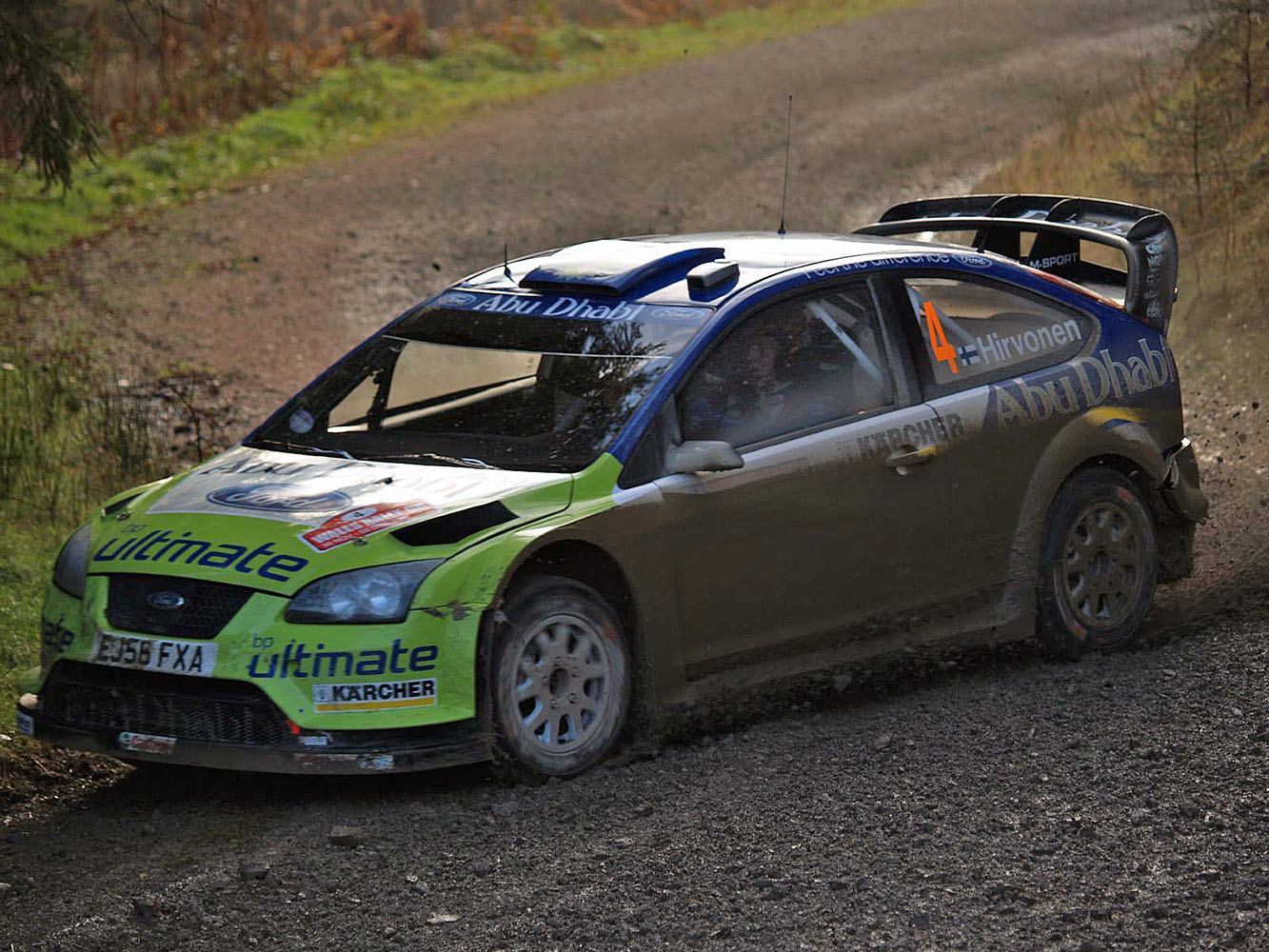 Mikko Hirvonen driving his Ford Focus RS WRC 07 during 2007 Wales Rally GB.